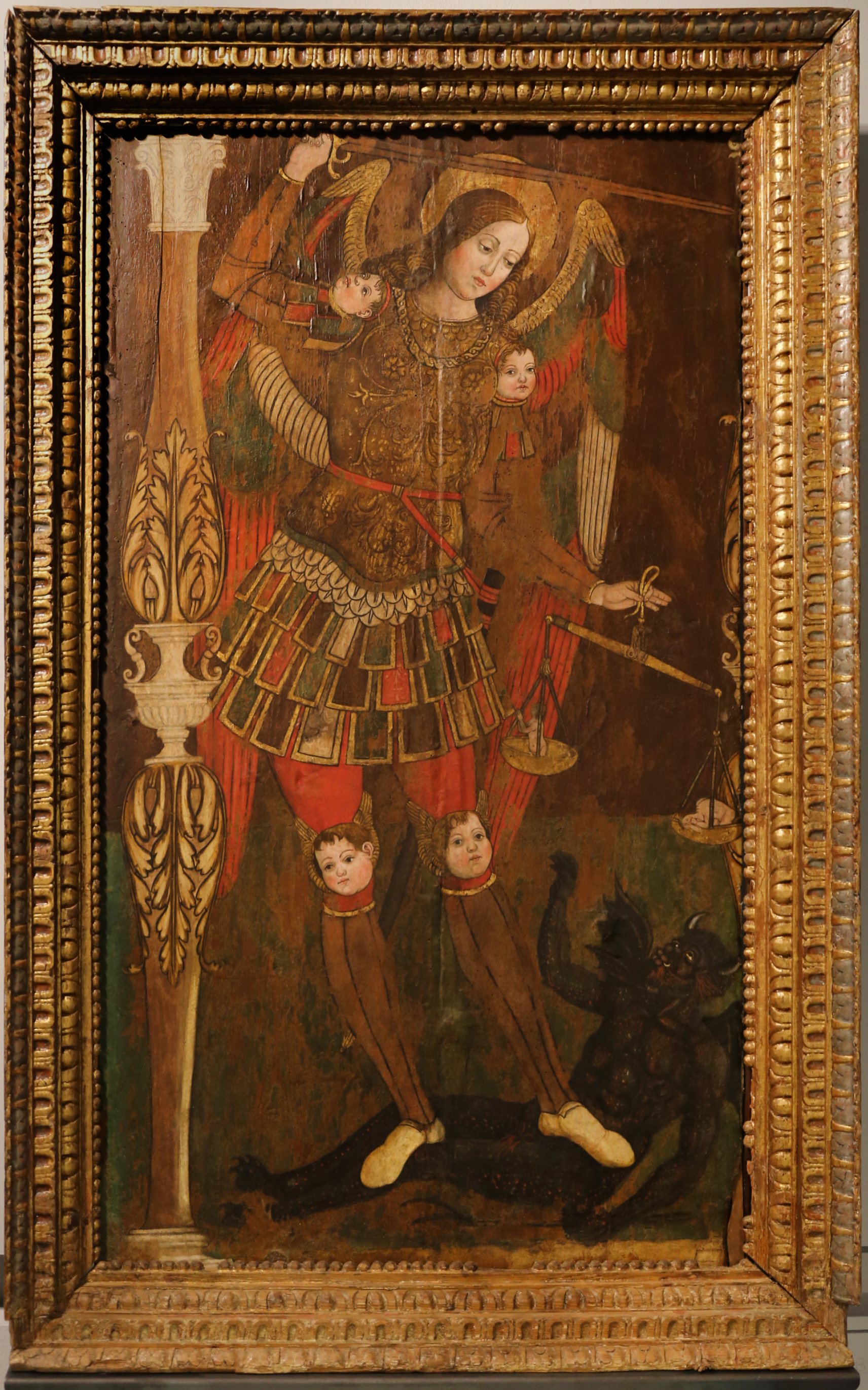 Paintings in the Museo nazionale d'Abruzzo